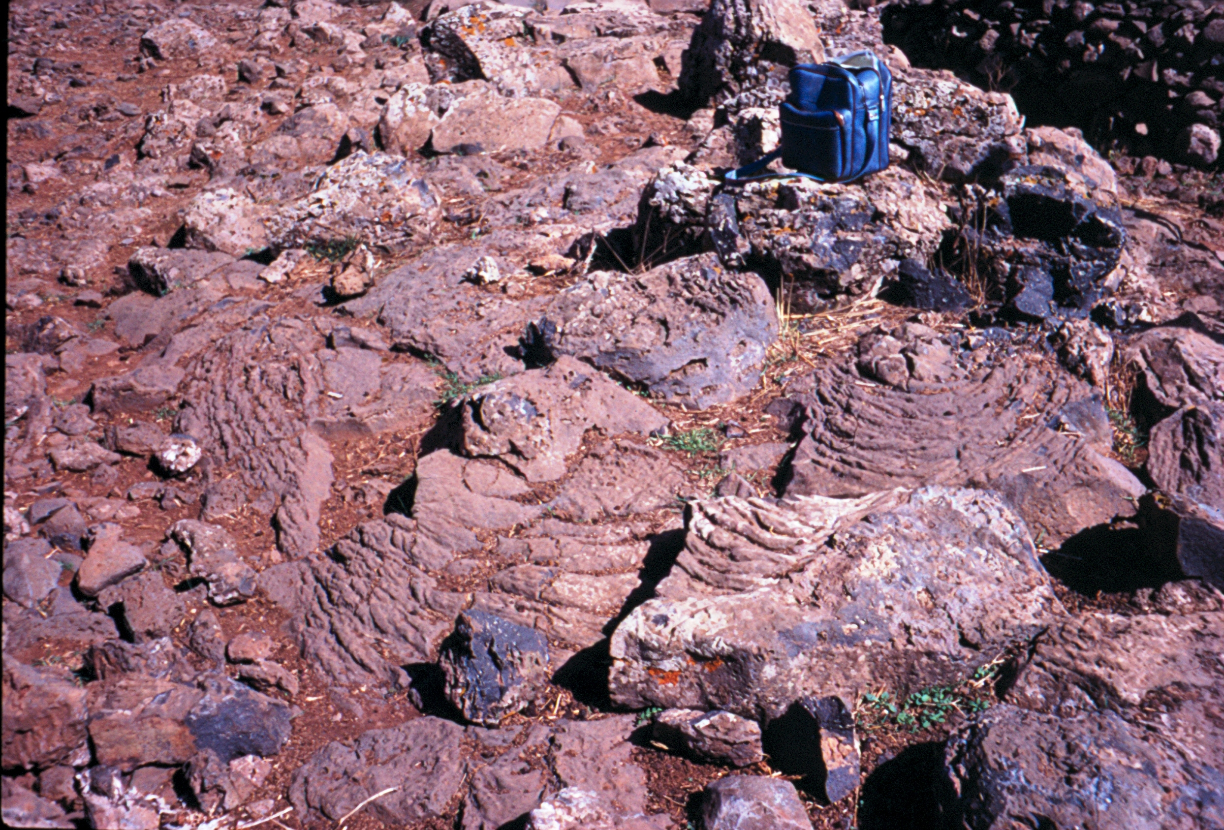 Basalt__flowing_at_Golan